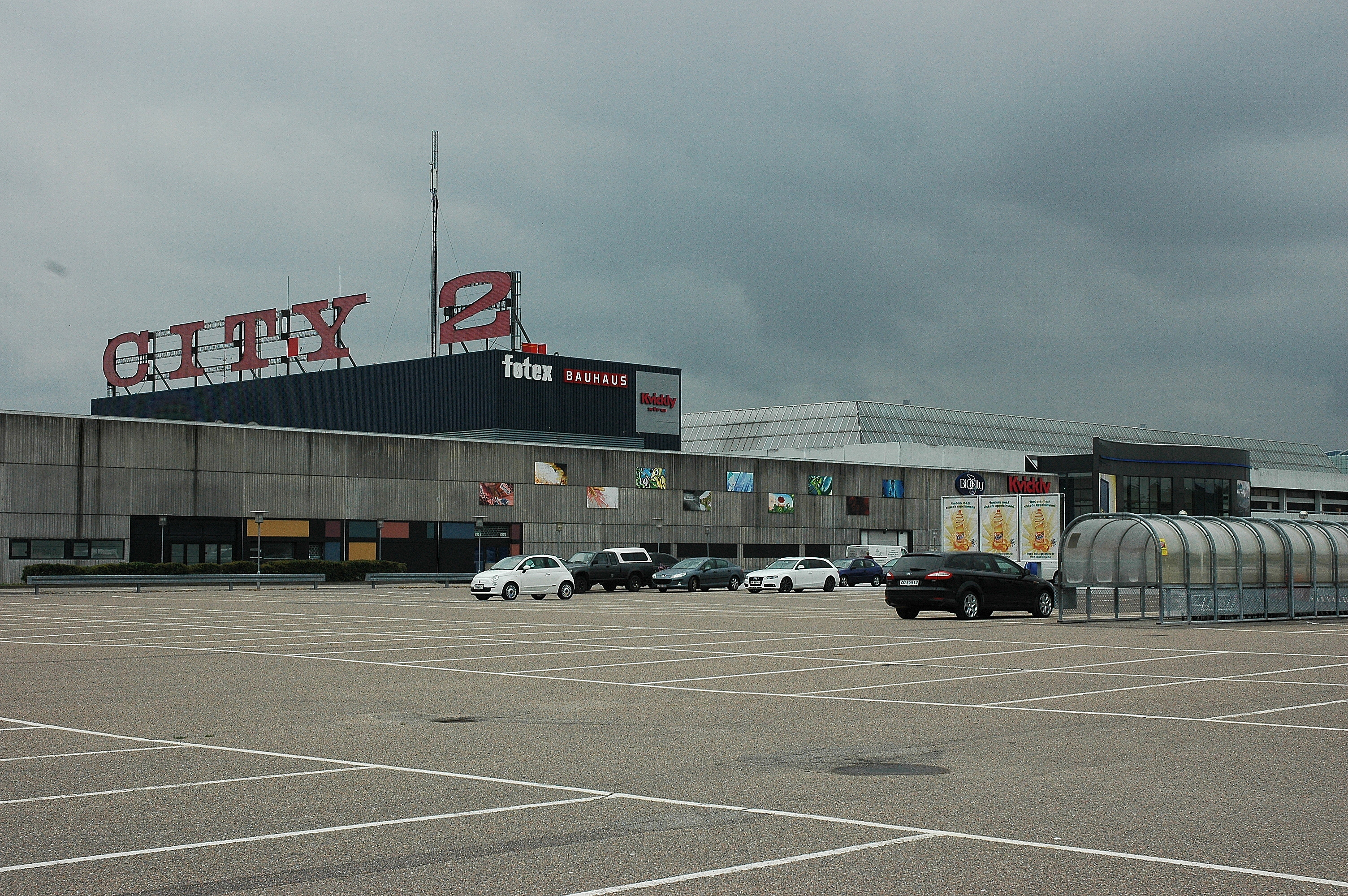 Mall, City 2, Taastrup, Denmark